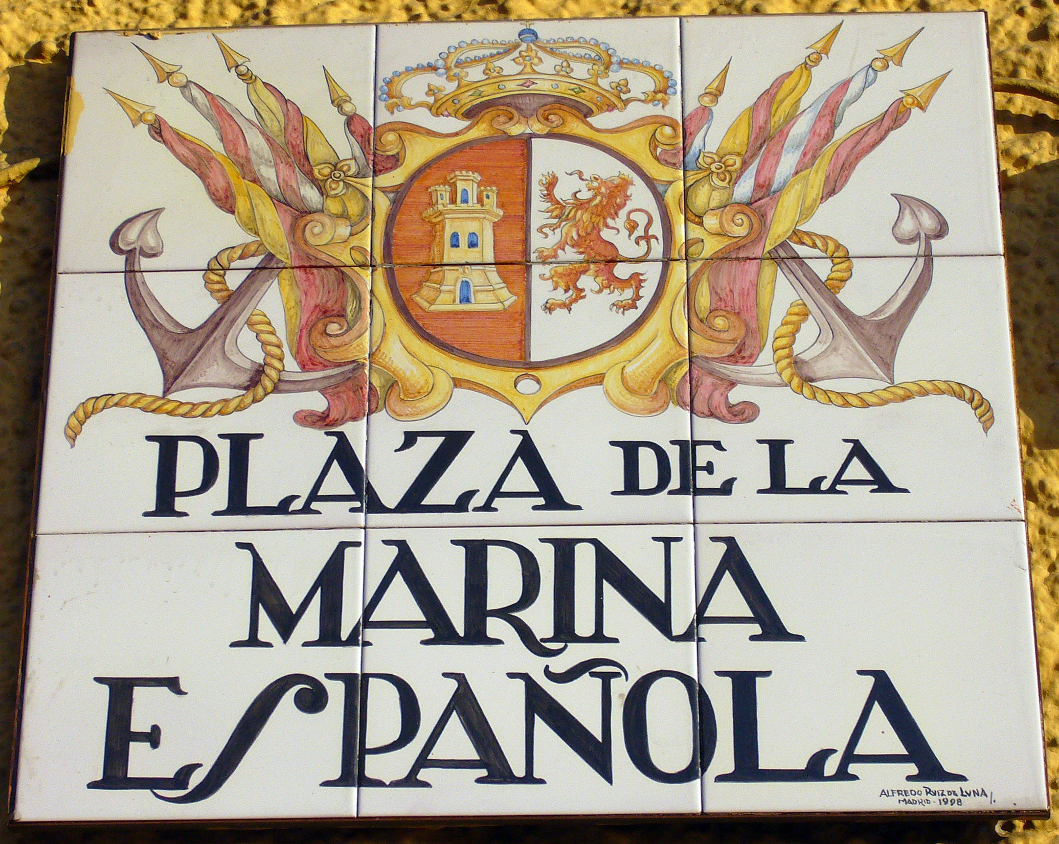 Plaza de la Marina (Madrid) street plate with the Spanish coat of arms.